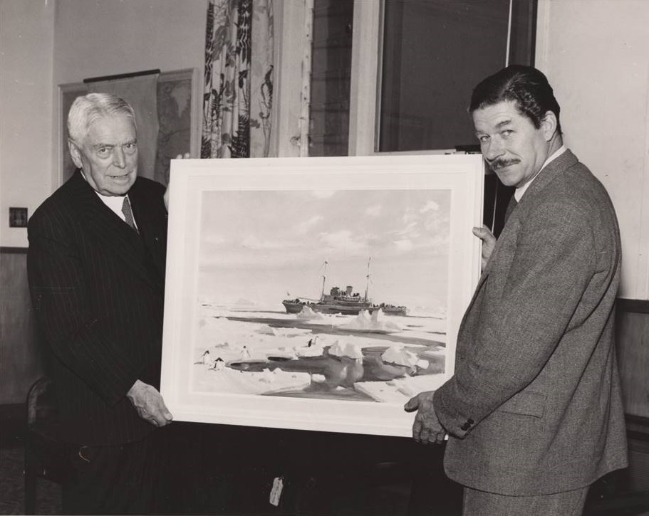 Artist Peter McIntyre (right) with Prime Minister Walter Nash (left).